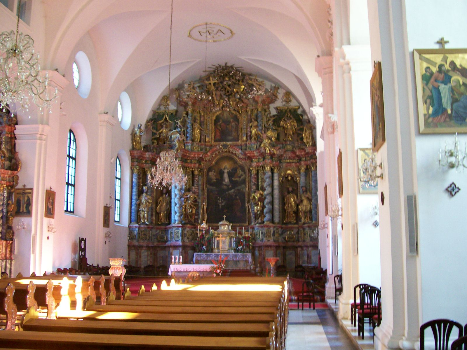 Interior of Varaždin Cathedral